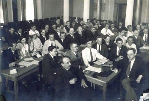 First all-Union conference on theoretical physics. Kharkov, 1929.